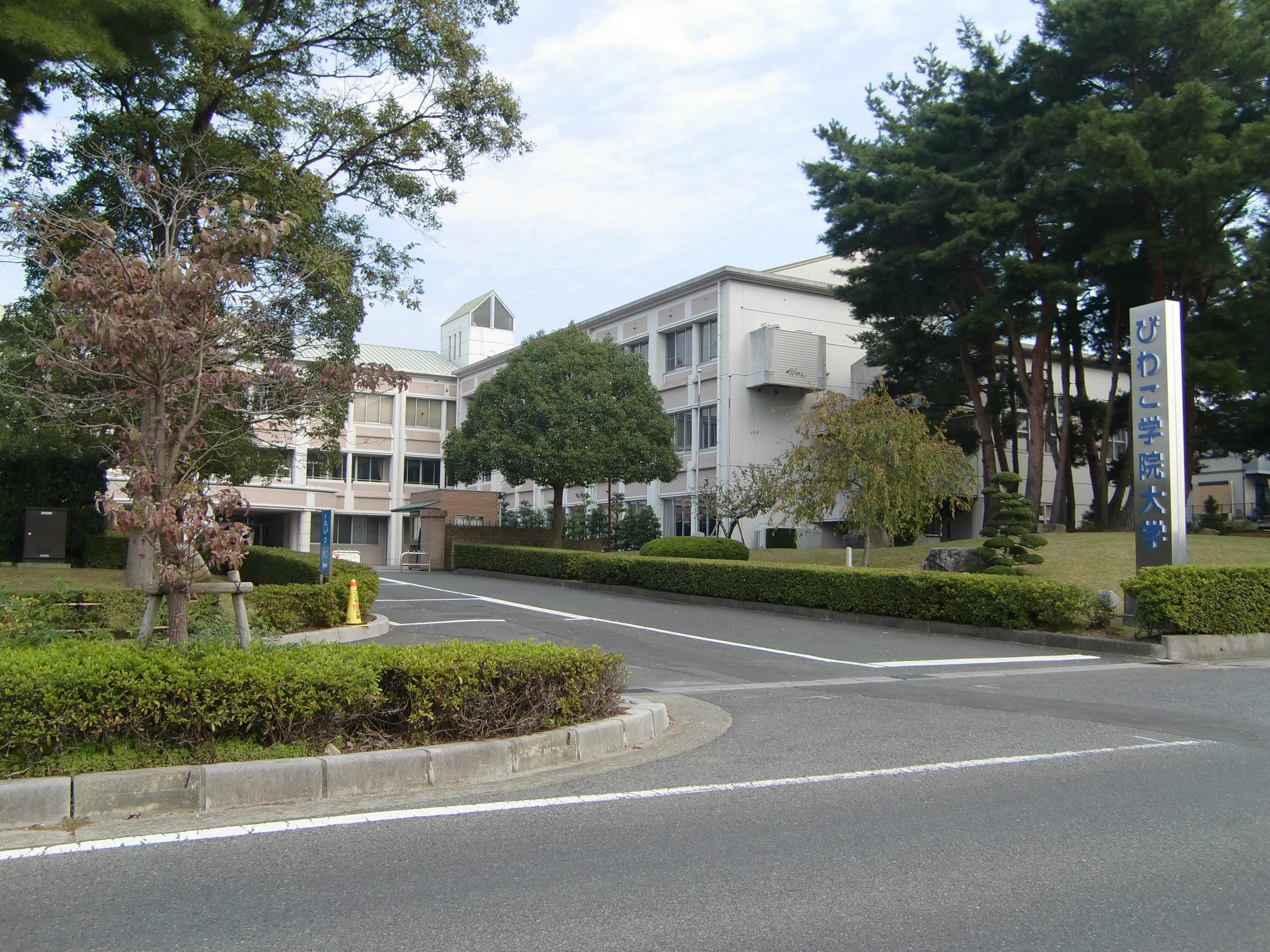 Biwako gakuin university